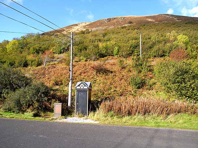 AA box 723 at Cappercleuch A historical curiosity. Does it still function? I used to have a key somewhere...